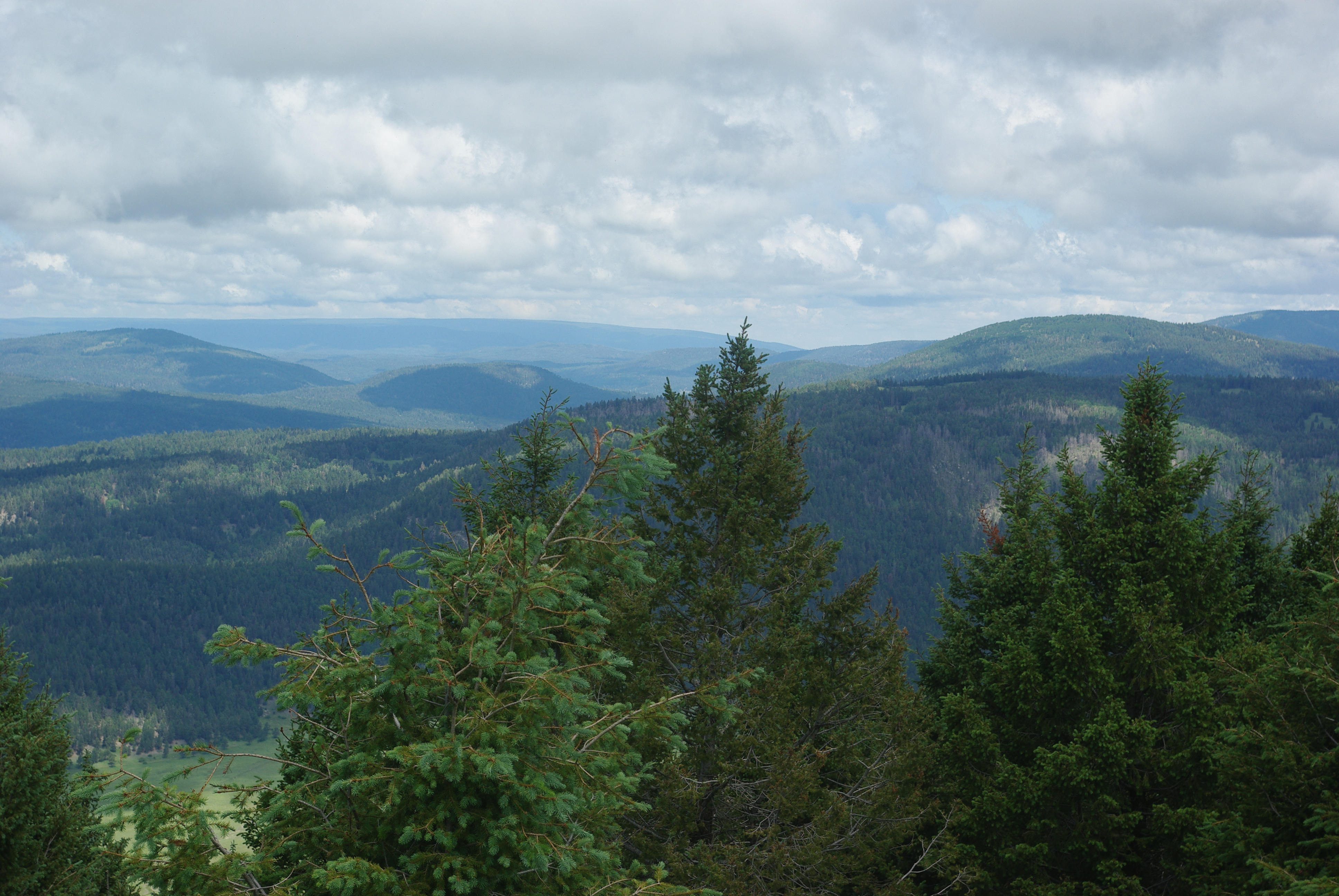 View of the Valles Caldera from the summit of Cerro Grande, New Mexico, after the Cerro Grande Fire and before the Las Conchas fire.